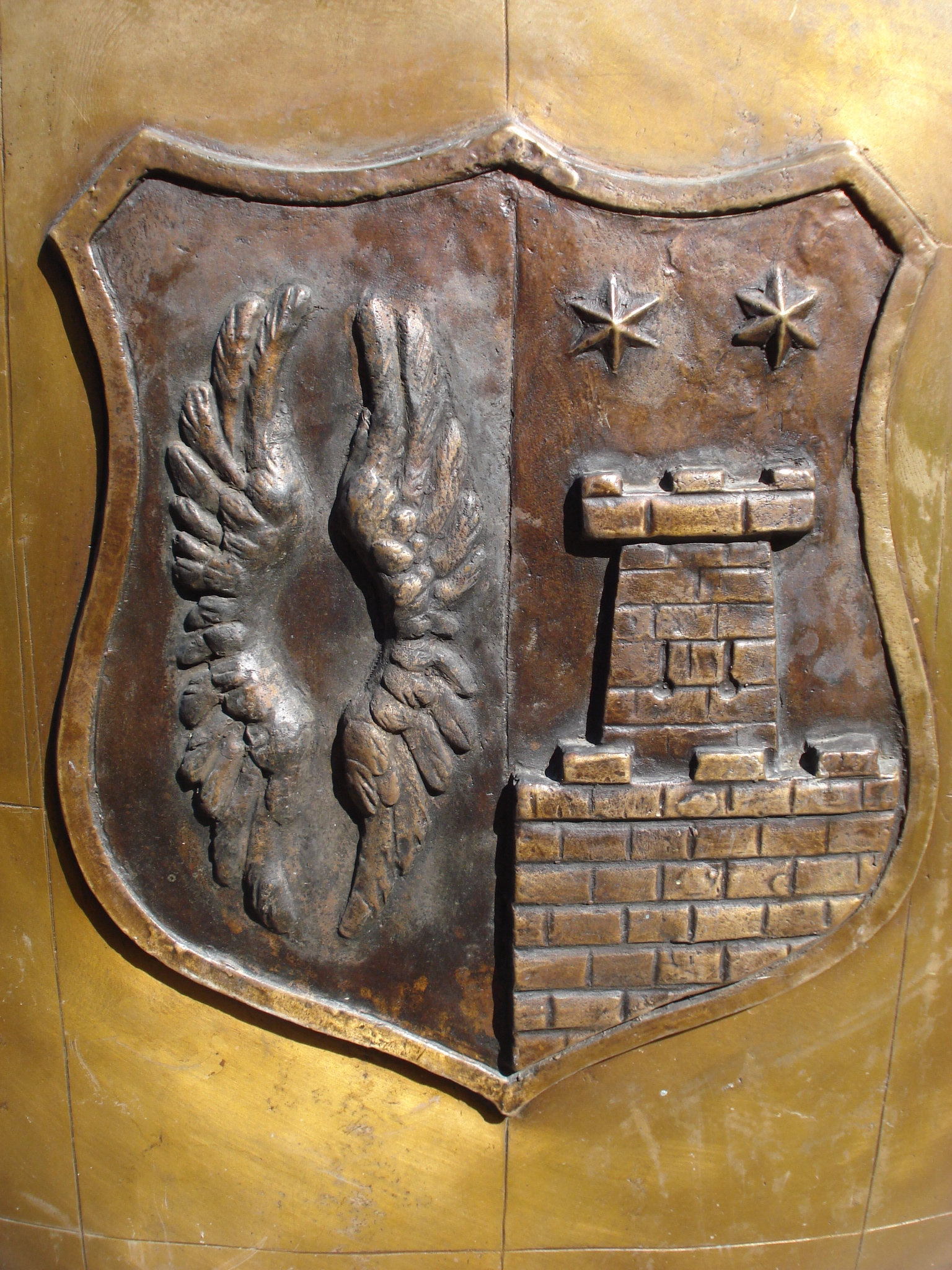 Zrinski family coat of arms at the monument to Nikola Šubić Zrinski in Čakovec, Croatia